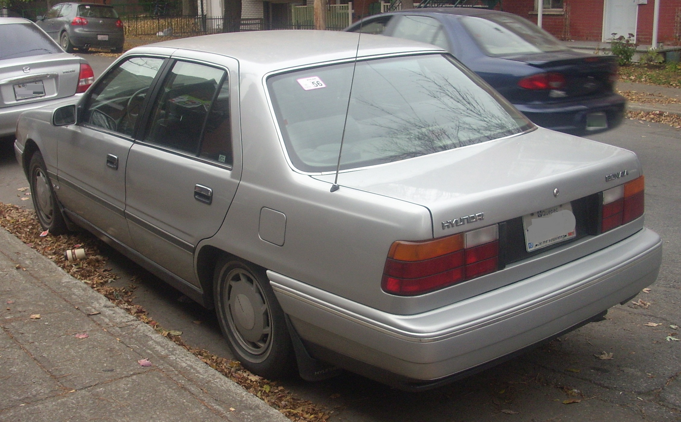 1988-1989 Hyundai Sonata photographed in Montreal, Quebec, Canada.